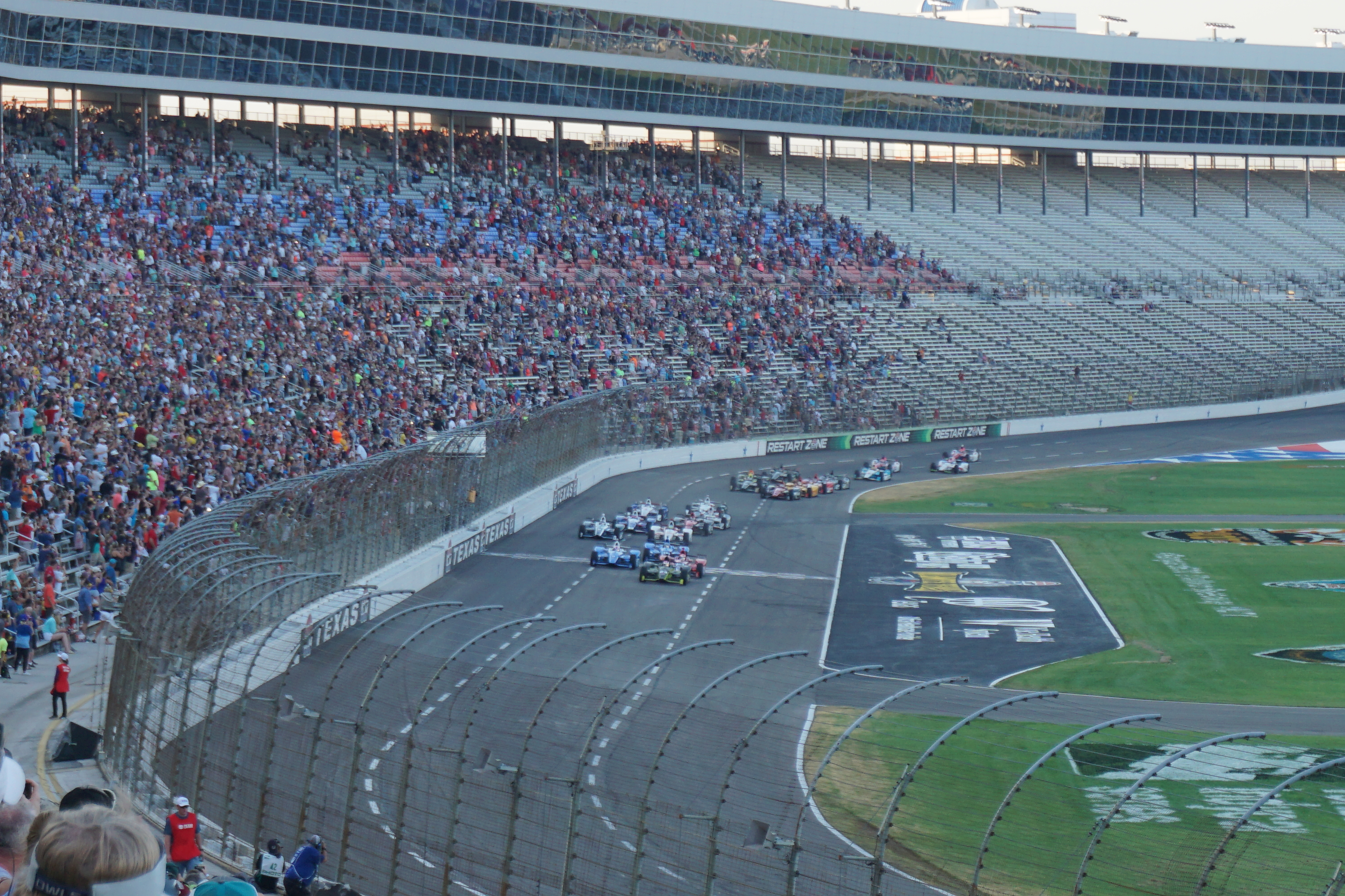 The start of the 2017 Rainguard Water Sealers 600 at Texas Motor Speedway in Fort Worth, Texas (United States).